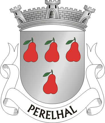 Crest of Perelhal, a parish in the municipality of Barcelos (Portugal)